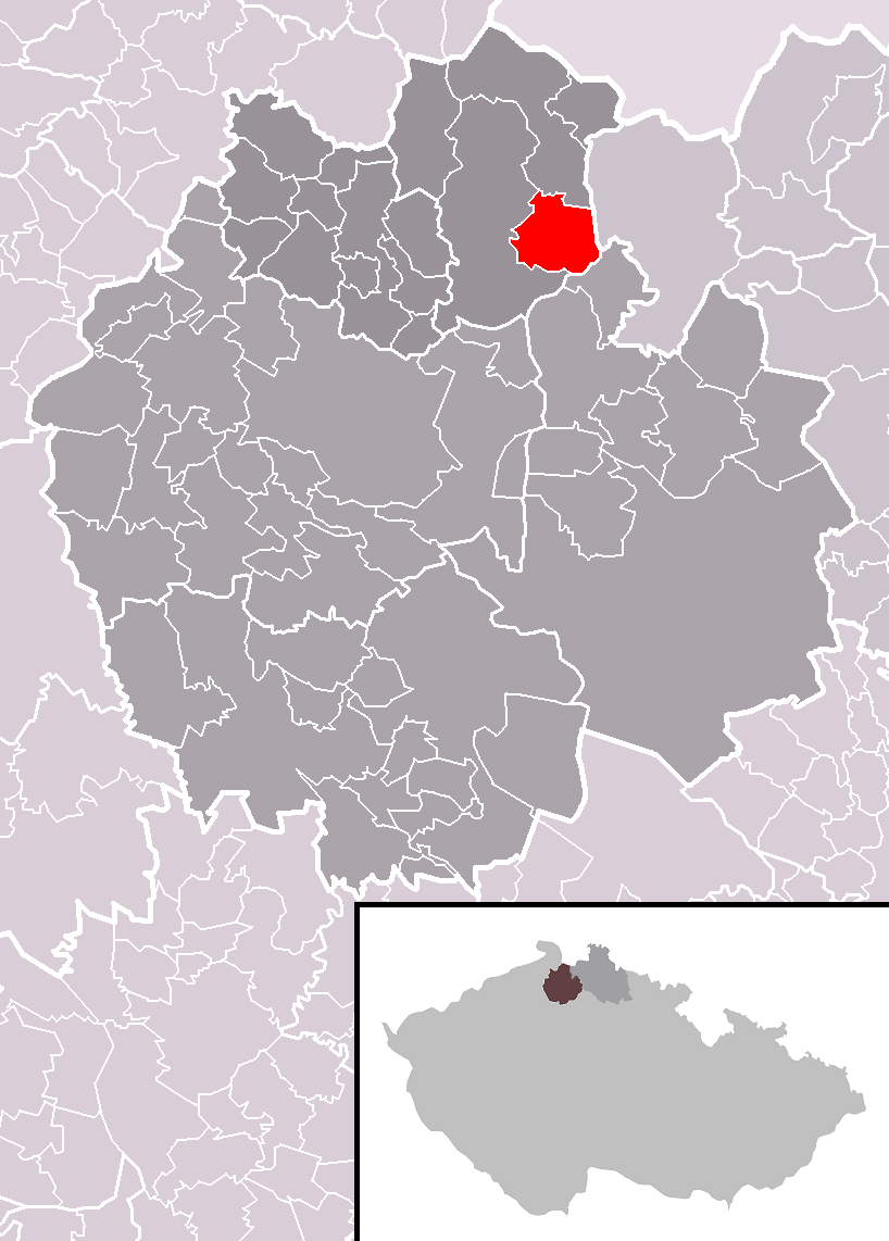 Location of Kunratice u Cvikova municipality within Česká Lípa District and administrative area of Nový Bor as a Municipality with Extended Competence.